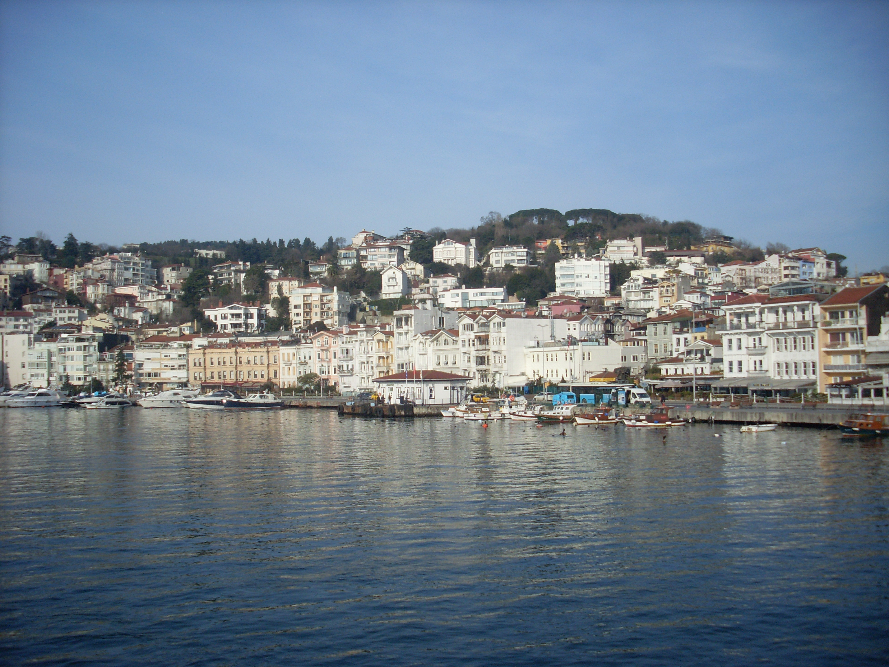 İstanbul - Arnavutköy, Beşiktaş r2 - feb 2013